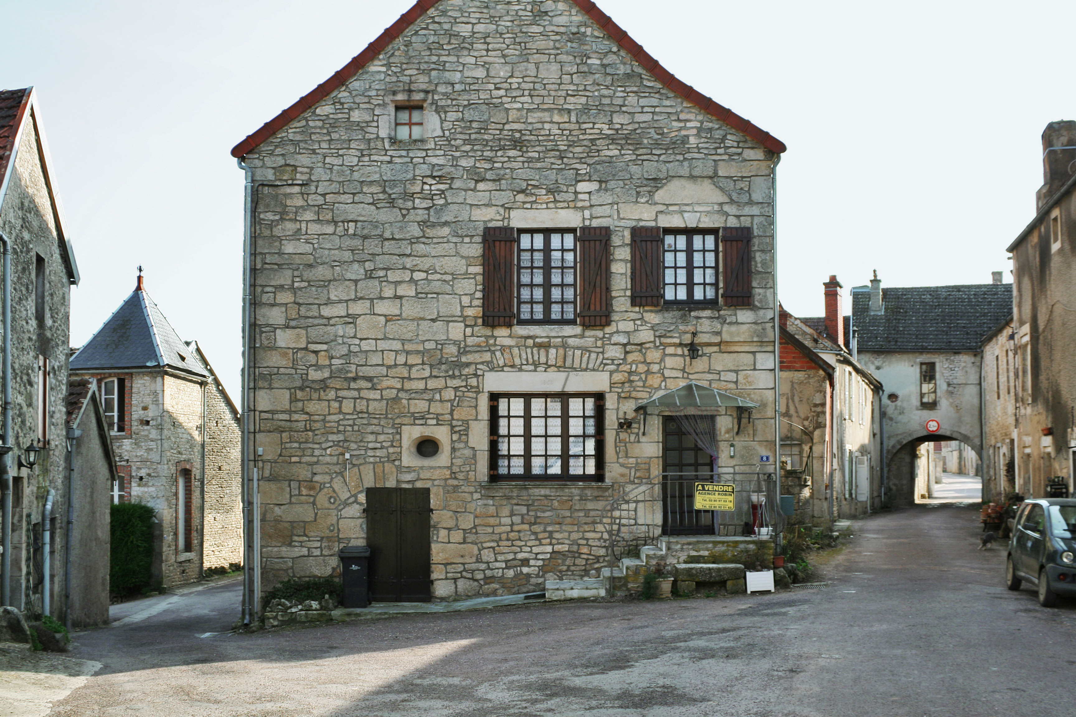 House of the hall street in Villaines-en-Duesmois